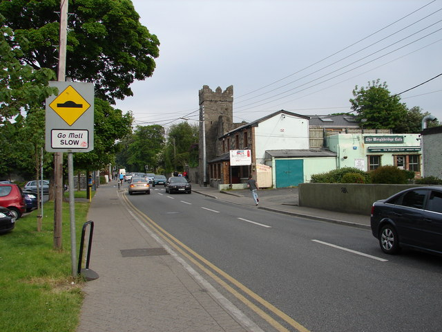 Monastery Road and Tulley's Castle A range of shops is situated unseen to the left of the picture.